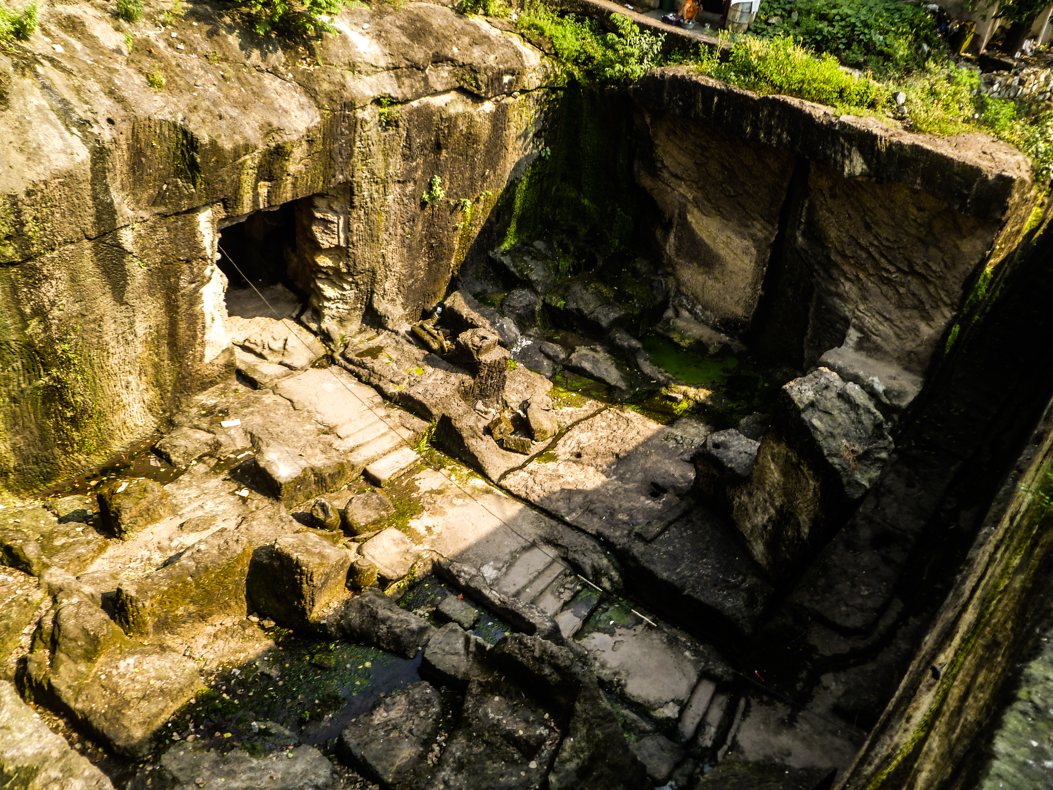 Jogeshwari Caves